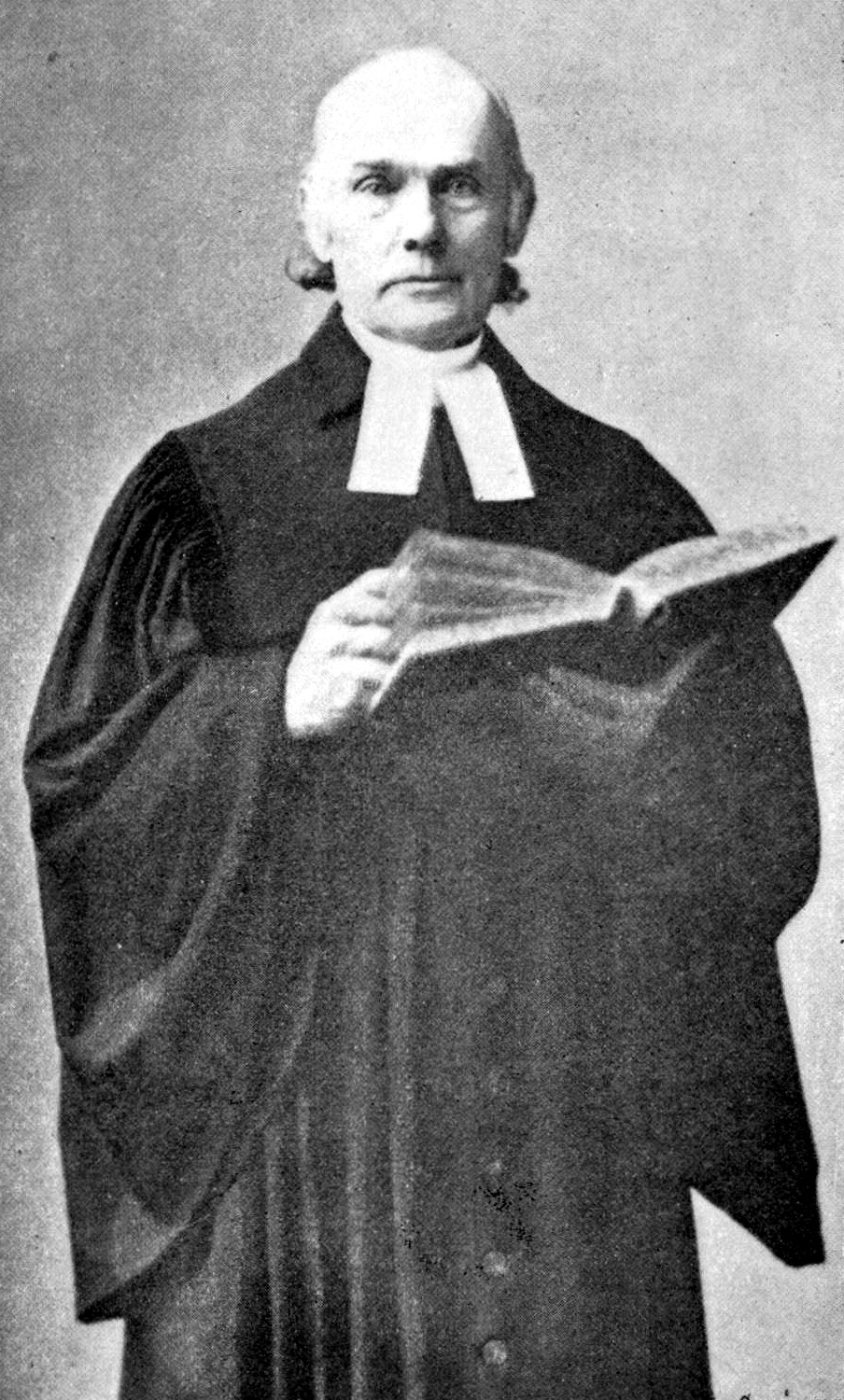 Gustav Knak